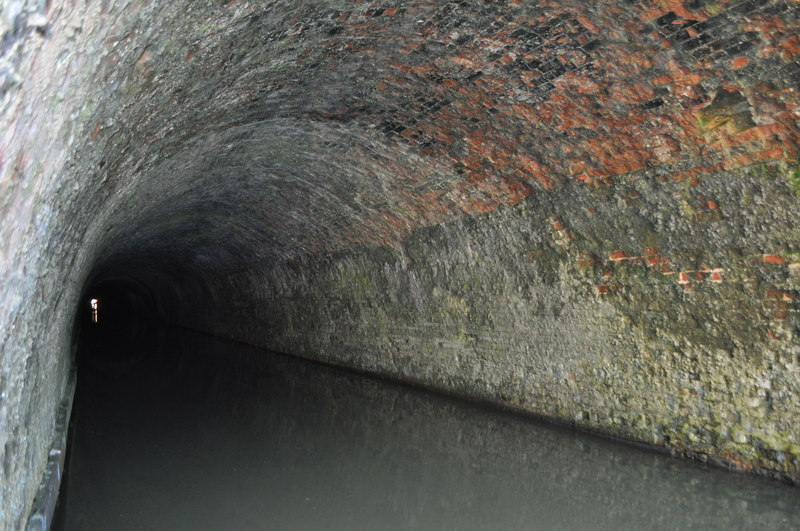 Grand Union Canal - Saddington Tunnel, near to Saddington, Leicestershire, Great Britain. A bit of a bend to get this one SP6593 : Grand Union Canal - Saddington Tunnel . The path runs over the top, boats would have been legged through.